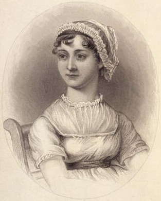 Cropped from Image:Jane Austen 1870.jpg. 1869 engraving showing an idealized, young Jane Austen, based on a sketch by Cassandra Austen